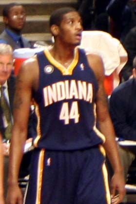 Solomon Jones (basketball) of the Indiana Pacers vs Chicago Bulls, December 2009